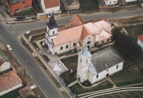 Mérk, Hungary, aerialphotography